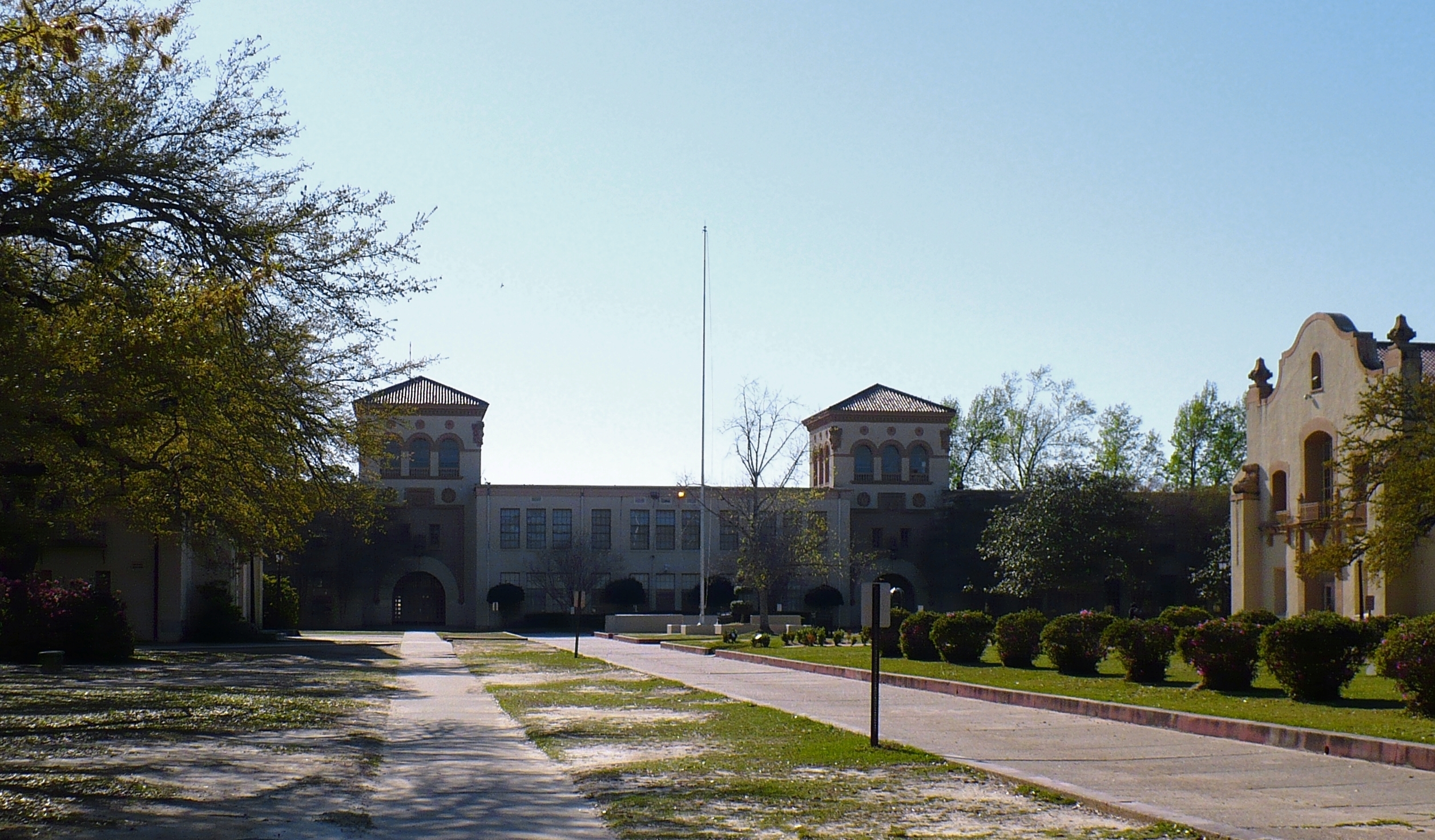 View of Murphy High School in Mobile, Alabama.